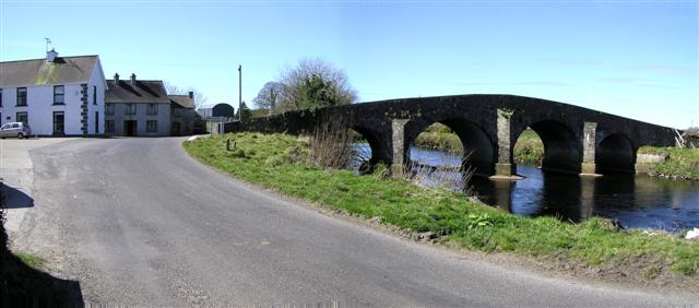 Killeter Bridge. It spans the River Derg, a bit like a roller coaster ride going over it.